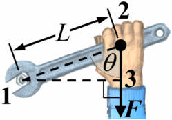 Demonstration of torque as the relation between force, length and angle. Hand drawn with pencil, coloured and labeled on computer.